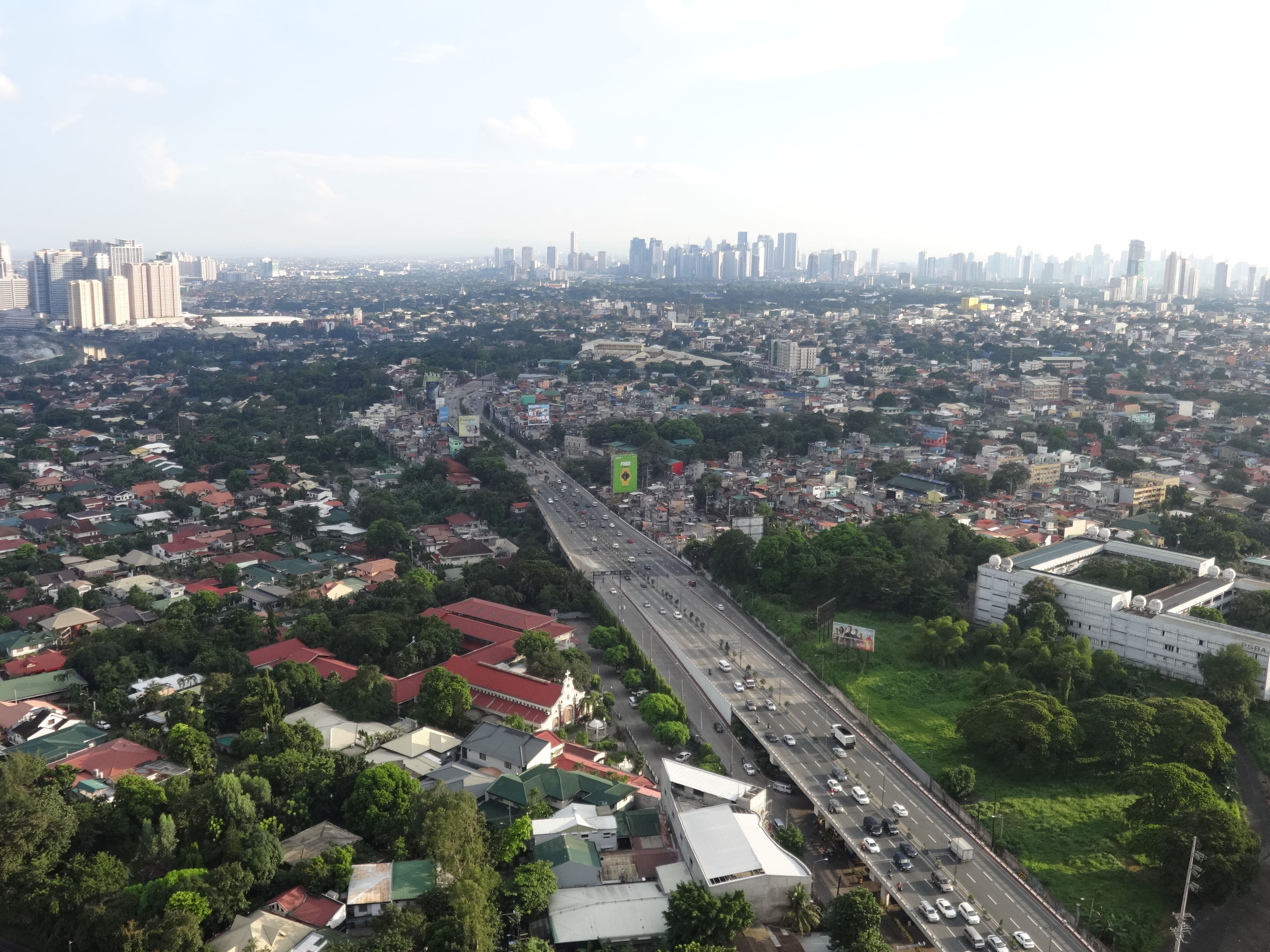 Aurora-P. Tuazon section of C.P. Garcia Avenue (C-5 Road/Katipunan Road) in Loyola Heights, Quezon City. Eastwood City, Ortigas Center and Cubao area are also visible on the photo.